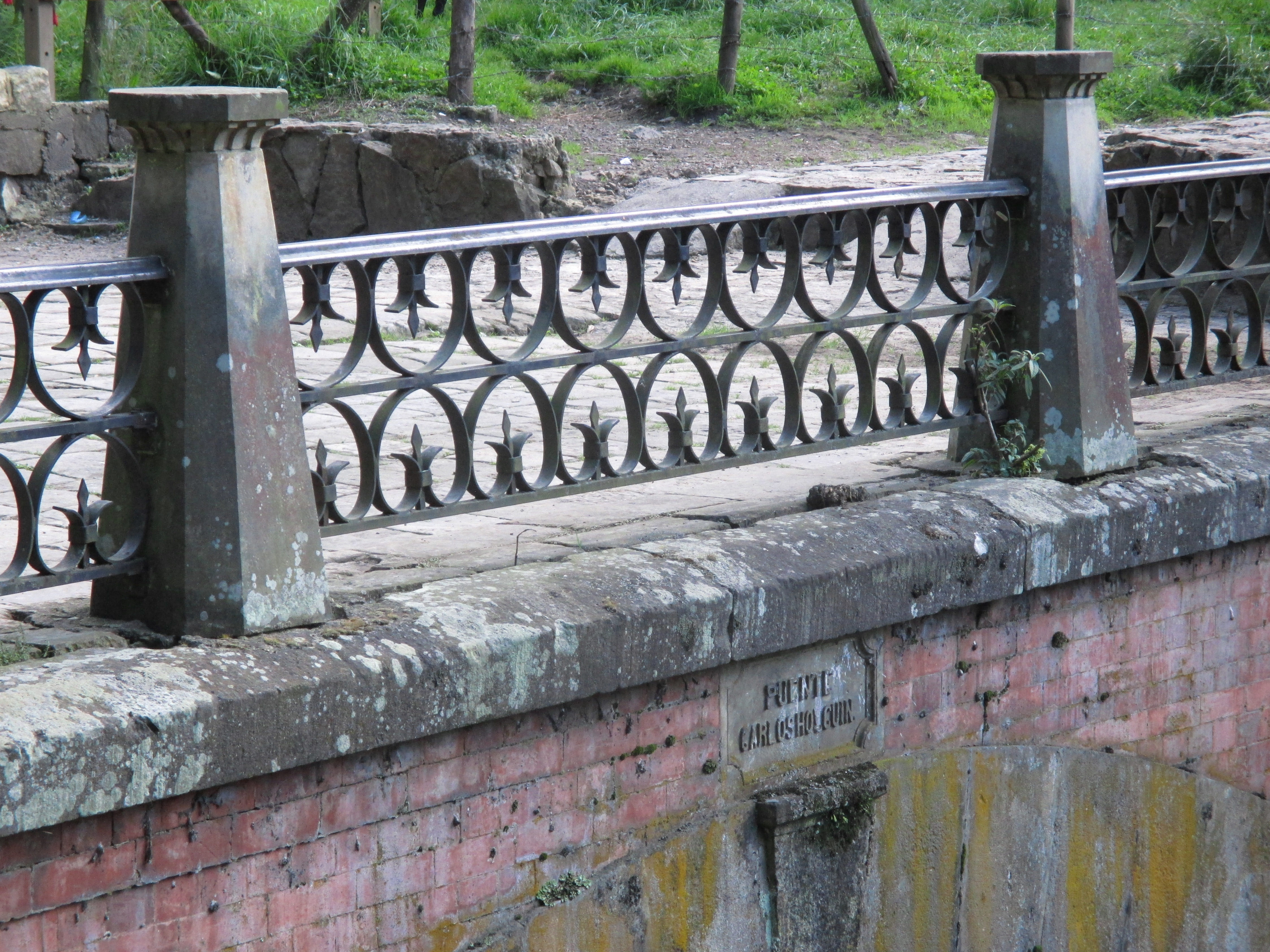 Bogotá